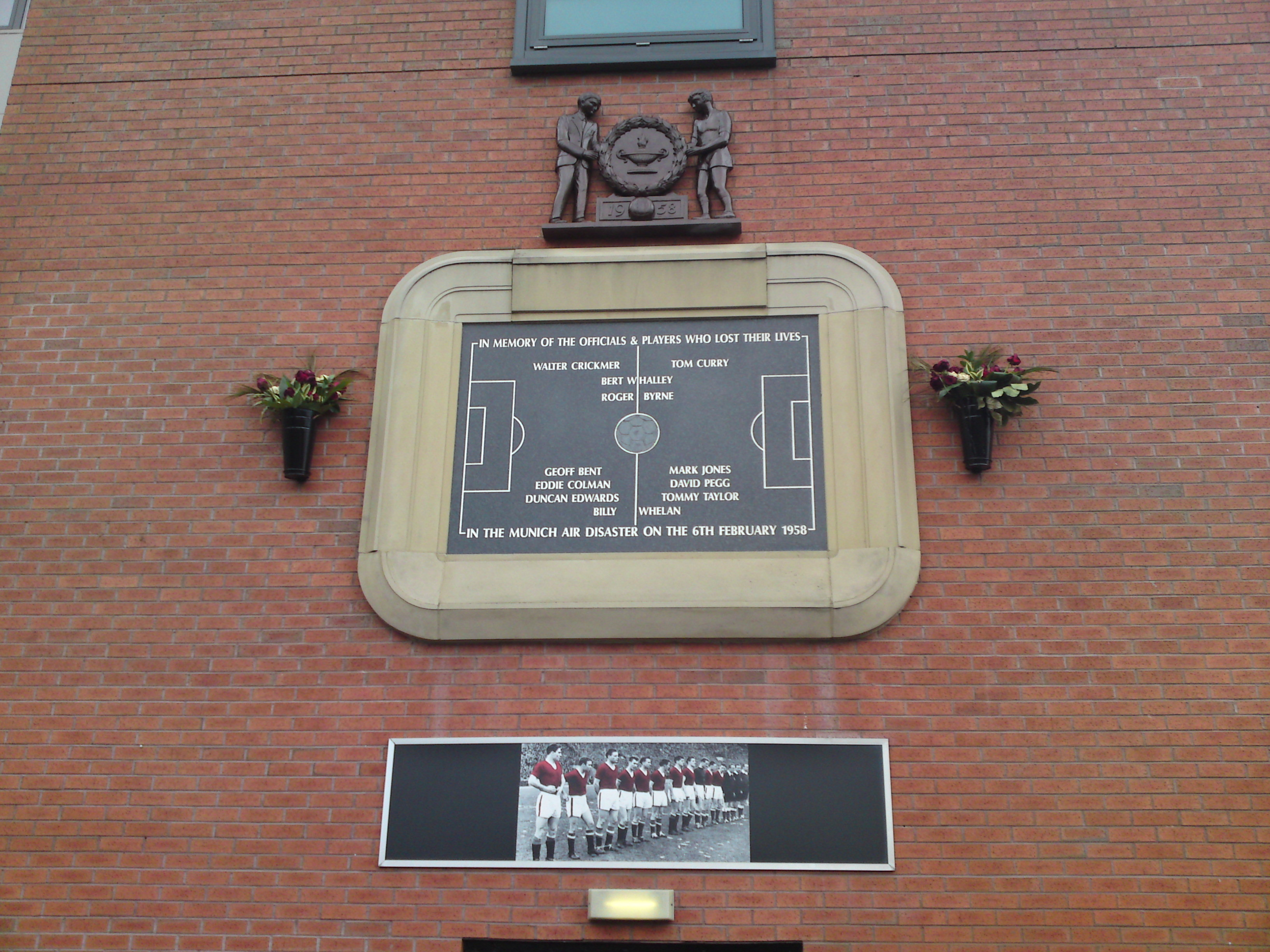 The memorial plaque at Old Trafford, Manchester, that commemorates the Munich air disaster of 1958